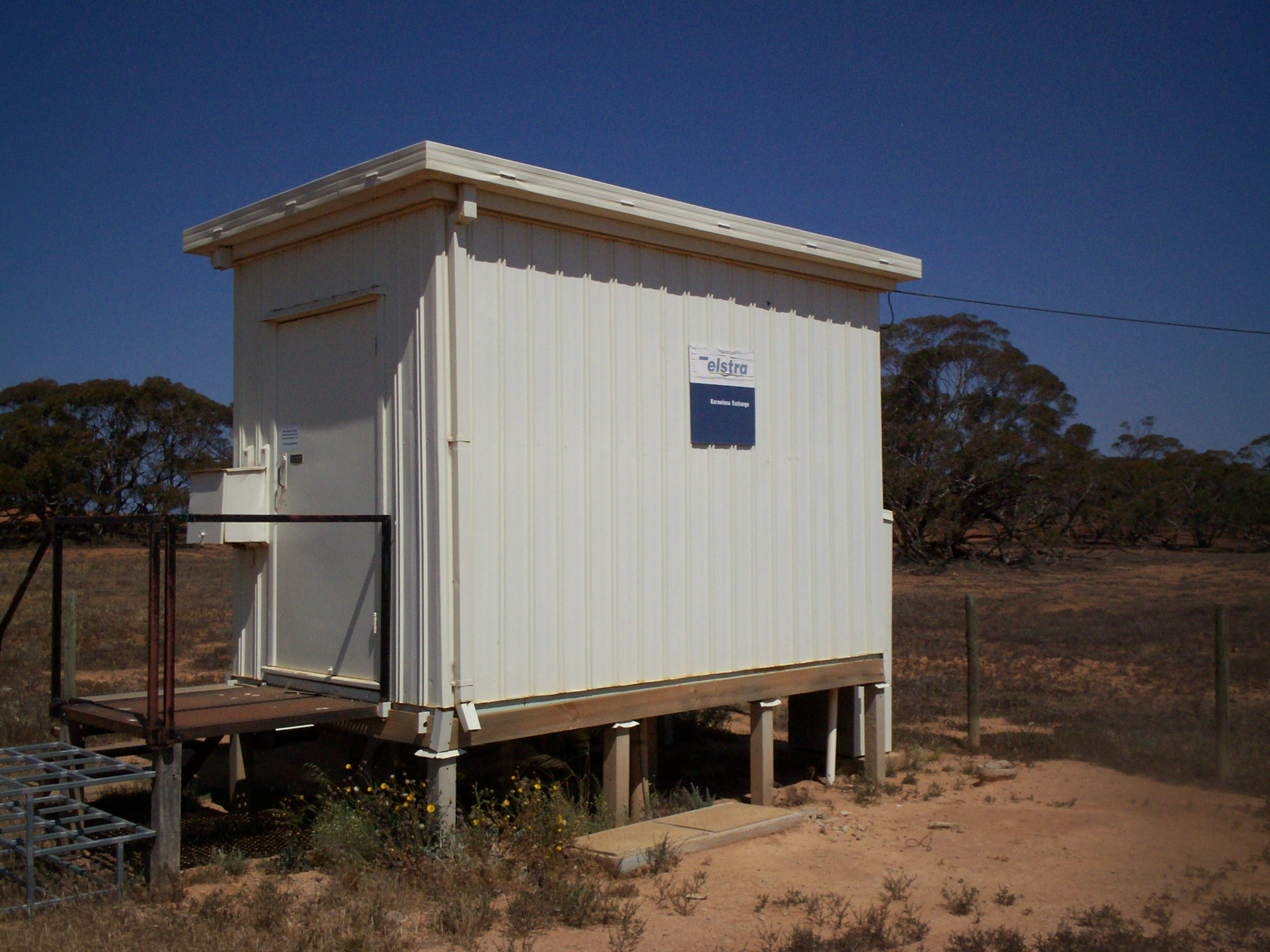 Telstra telephone exchange located in Karawinna, Victoria, Australia